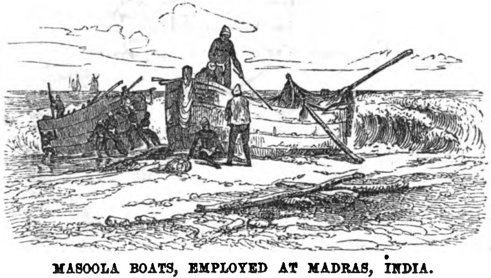 Masoola Boats, Employed at Madras, India (January 1848, p.Vignette, V)